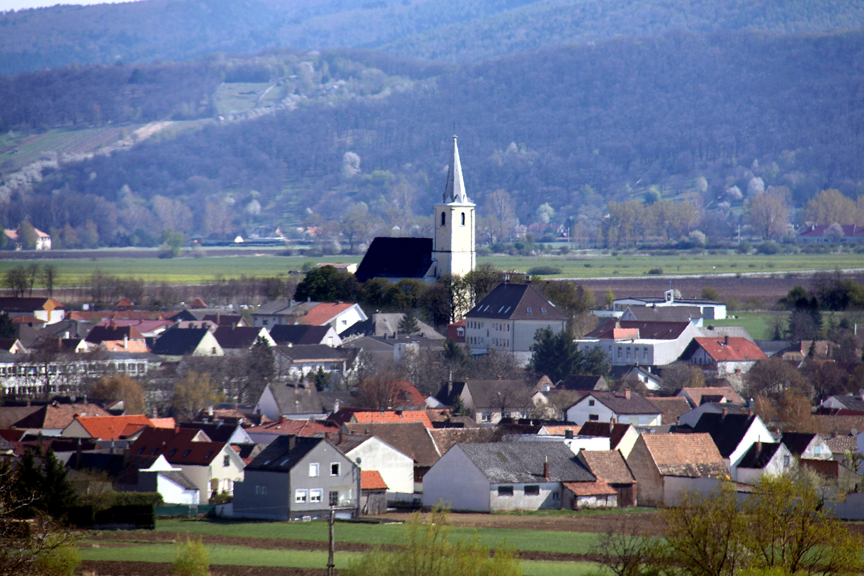 View to Schattendorf. Object location 47° 42′ 35.21″ N, 16° 30′ 35.17″ E This and other images at their locations on: Google Maps - Google Earth - OpenStreetMap - Proximityrama(Info) - OpenStreetMap(Info)